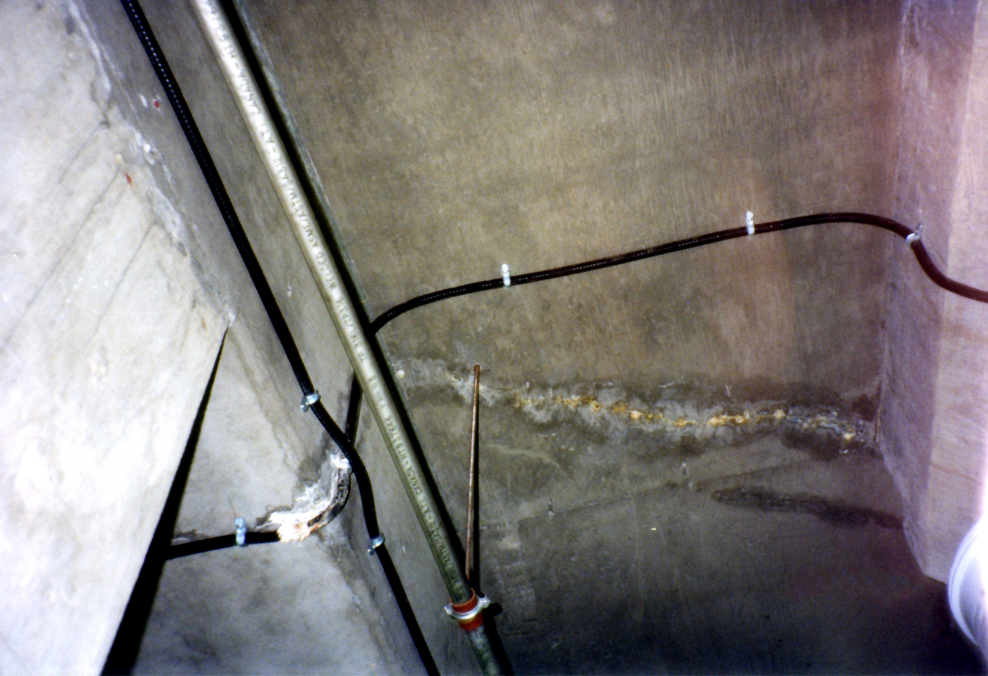 Secondary efflorescence: Water seeping through the concrete, often in cracks, having dissolved components of cement stone: like Osteoporosis of the concrete. This often happens in parking garages, as road salt comes off cars as a saline solution in the winter, then affecting the concrete floor the cars are parking on.